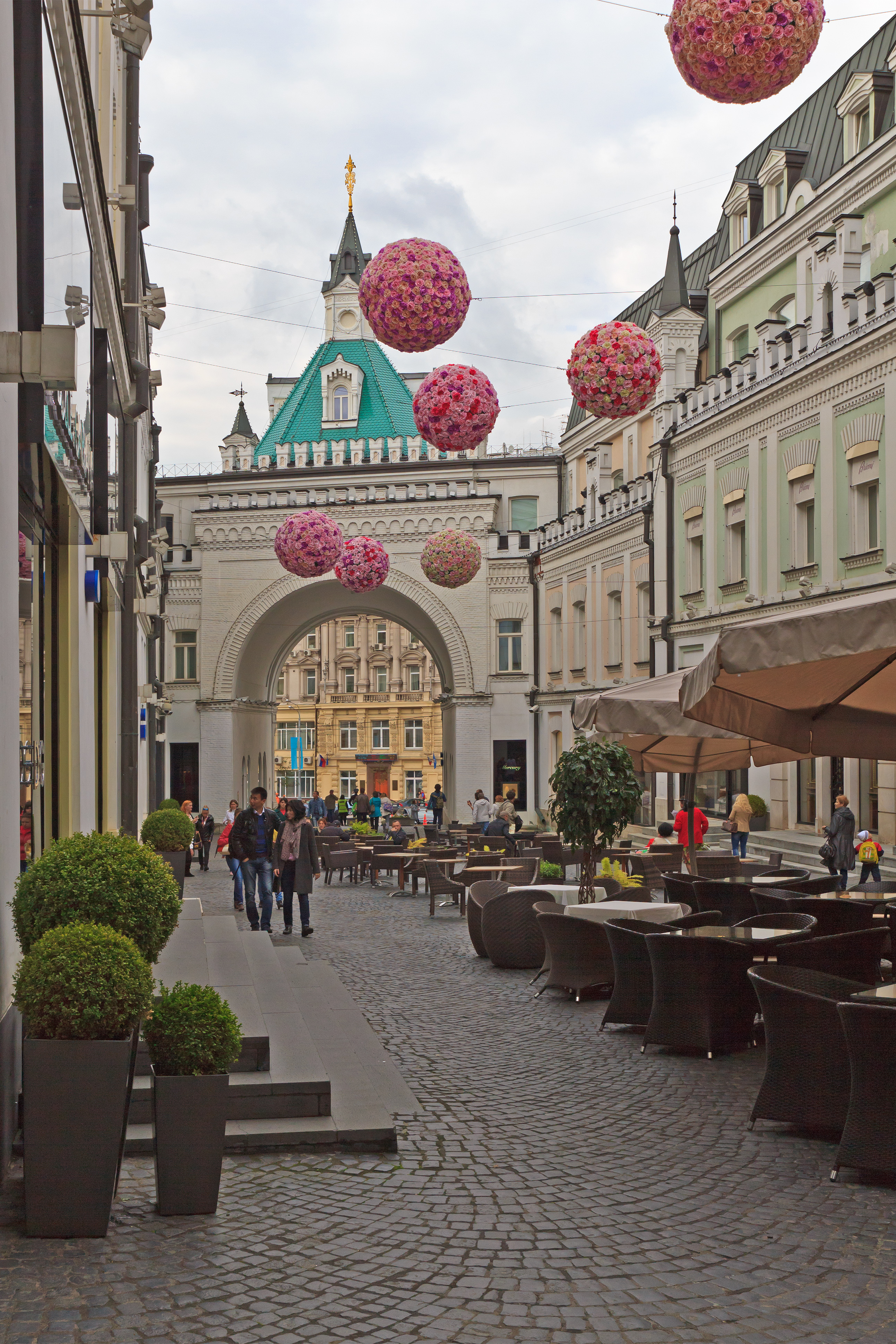 Day of the Town 2013 in Moscow, Russia. Tretyakovsky Passage.